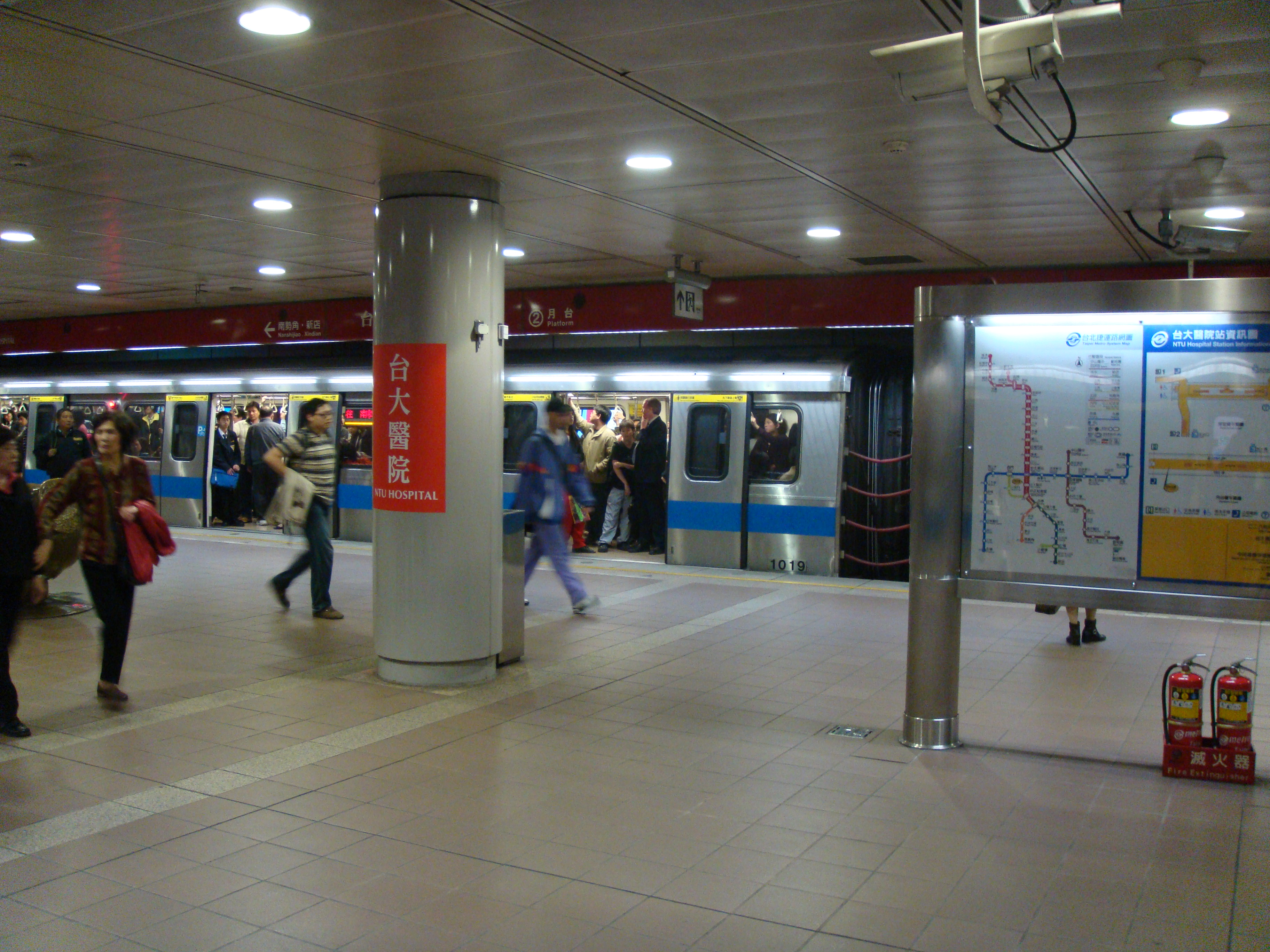 Taipei MRT rolling stock at Platform 2, NTU Hospital Station.